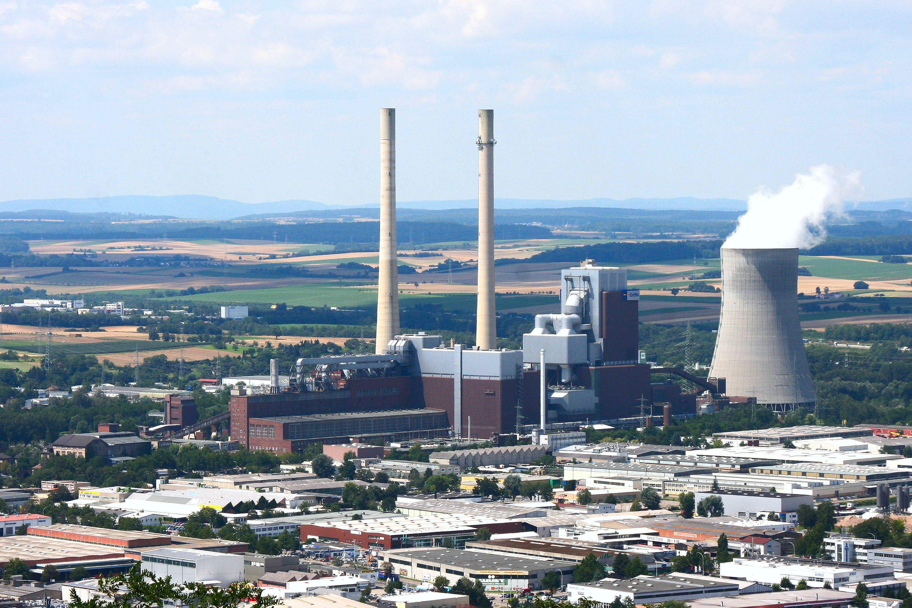 The steam power station in Heilbronn as seen from the Wartberg tower